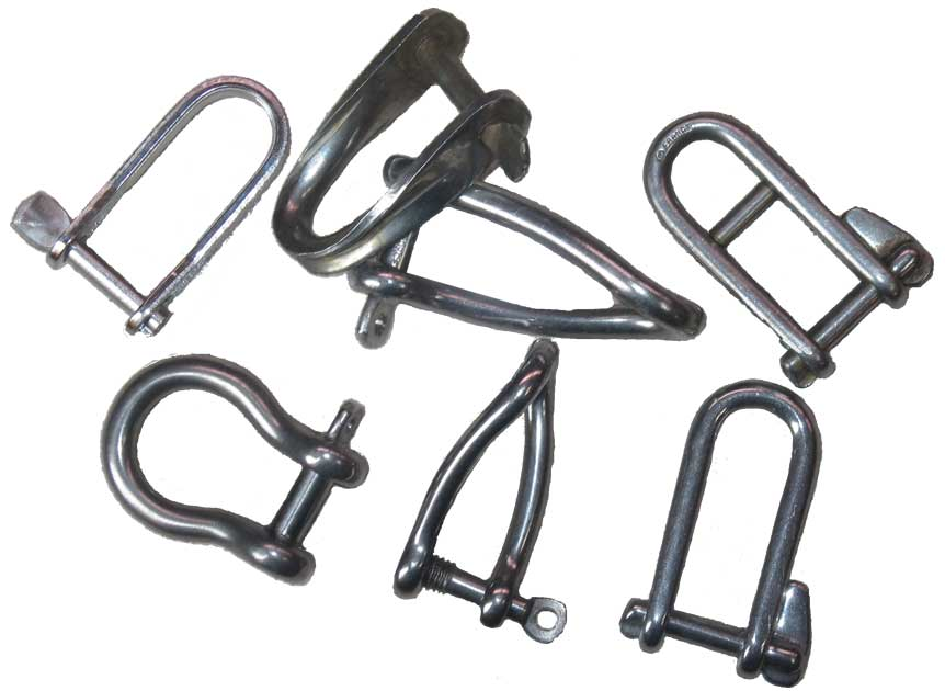 Shackle